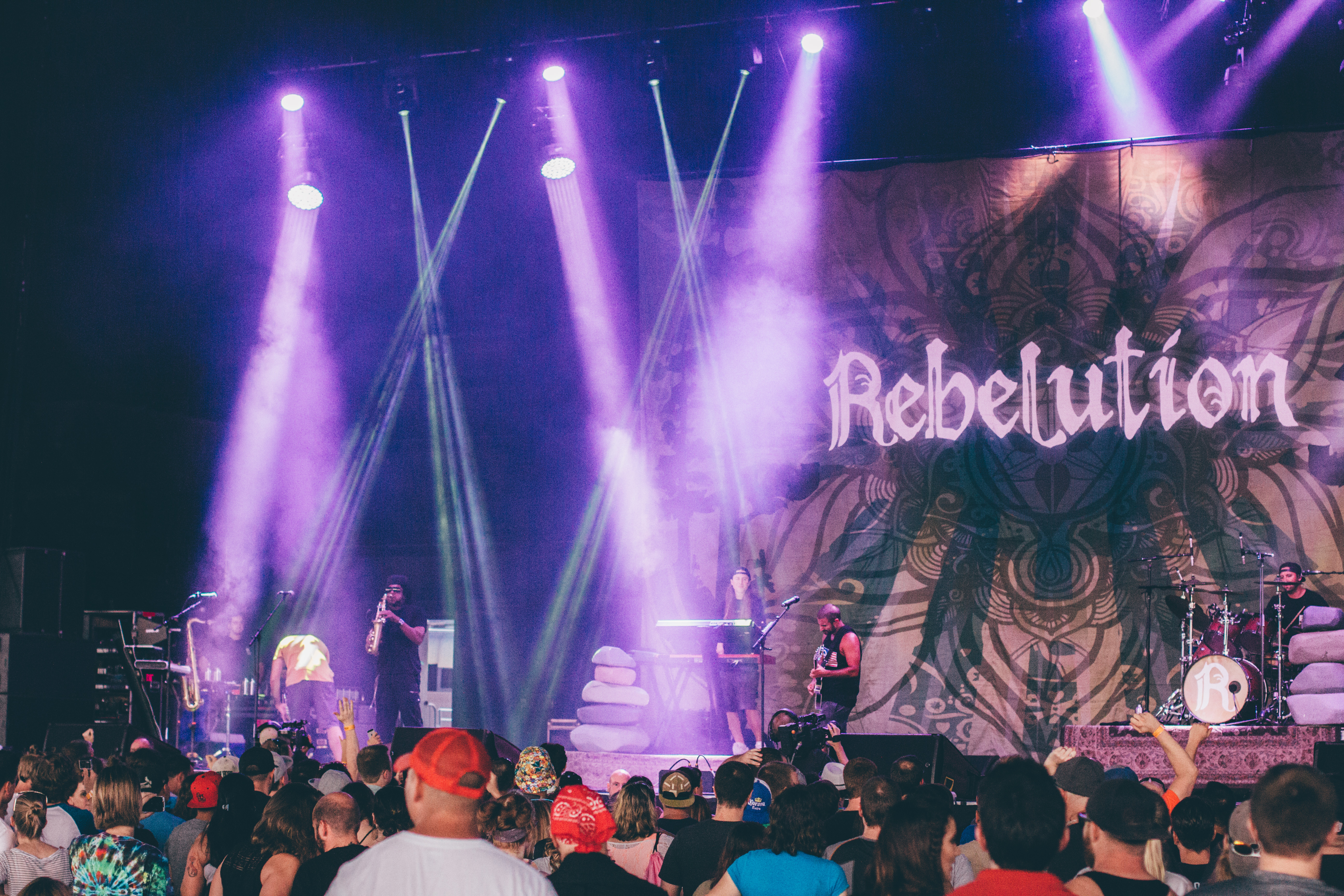 Rebelution reggae band performing live at music festival